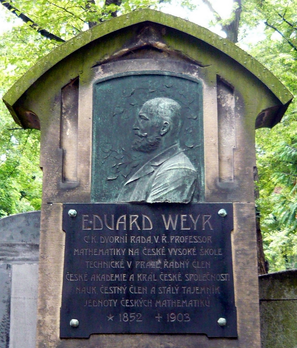 The grave of Eduard Weyr (1852 – 1903). Prague, Olšany Cemetery, graveyard 6, section 3, grave 5.